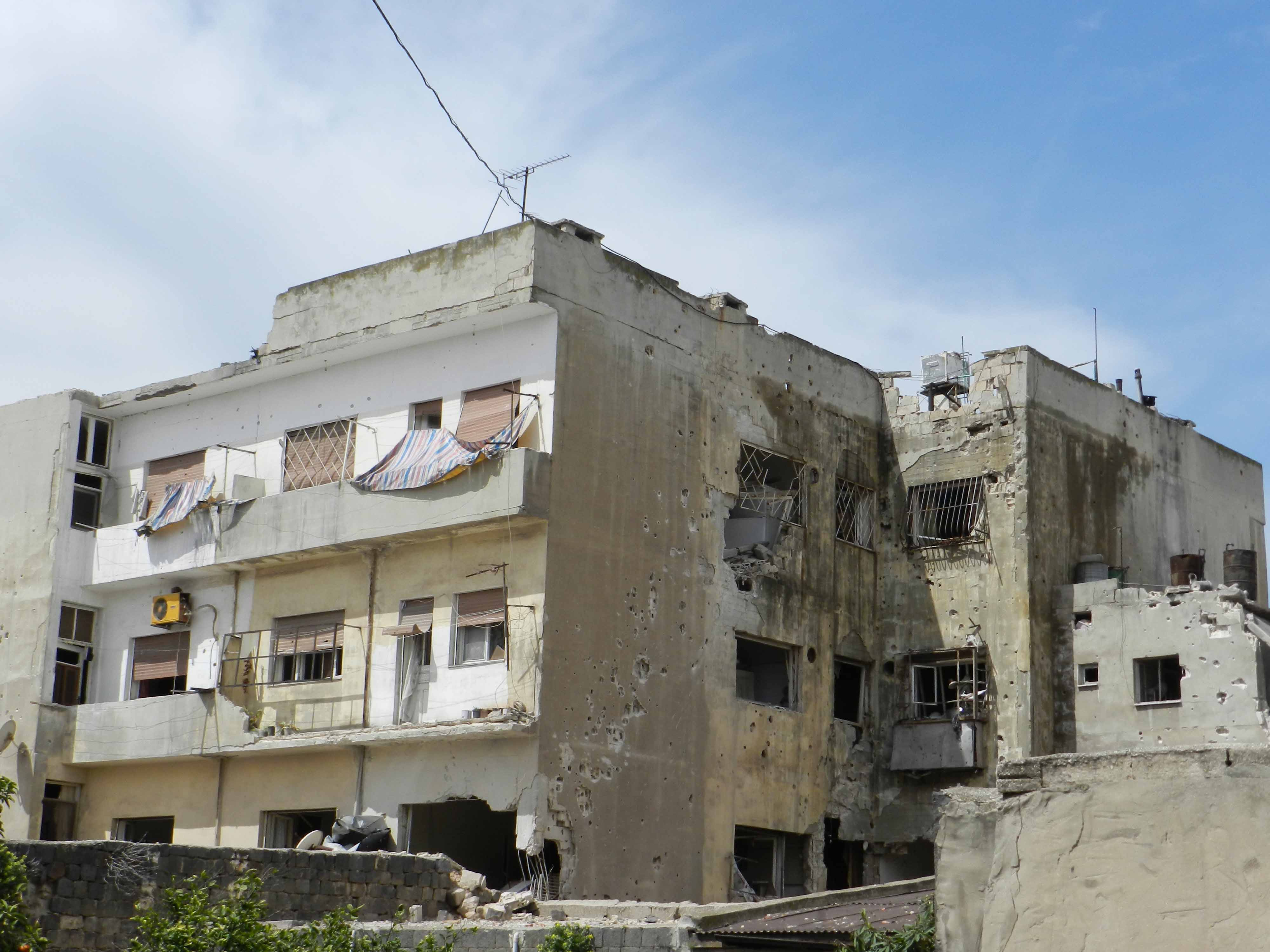 Destruction in Bab Dreeb area in Homs, Syria